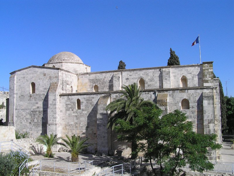 Santa Anna church in Jerusalem old city (Muslim qt.), 2005